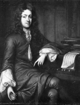 Picture of Daniel Purcell (c.1663-1717) younger brother of Henry Purcell